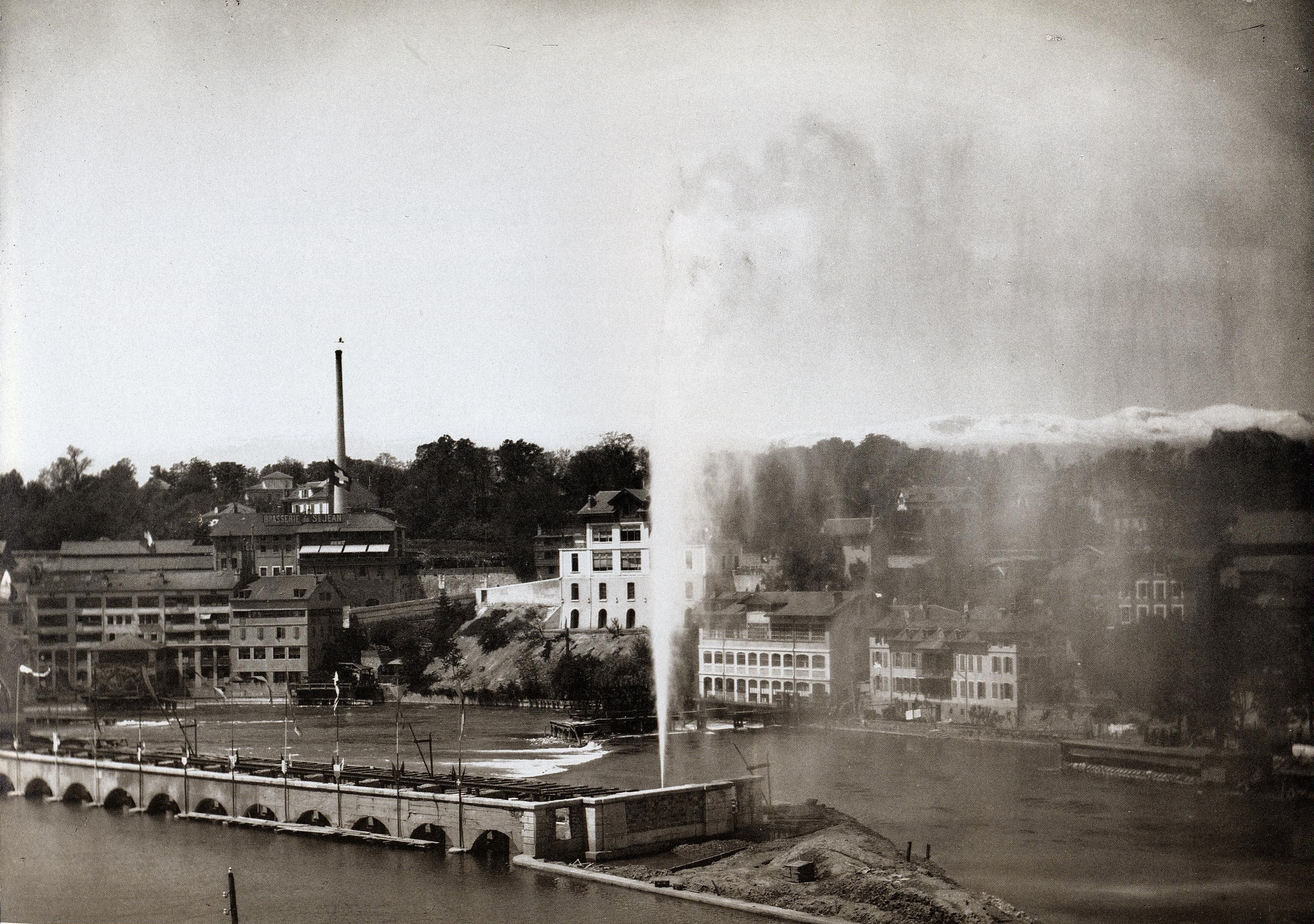 The first "jet d'eau" in Geneva, at the place where the "Usine de la Coulouvrenière" was being built Location of this "jet d'eau": 46°12′17.18″N 6°8′17.26″E / 46.2047722°N 6.1381278°E